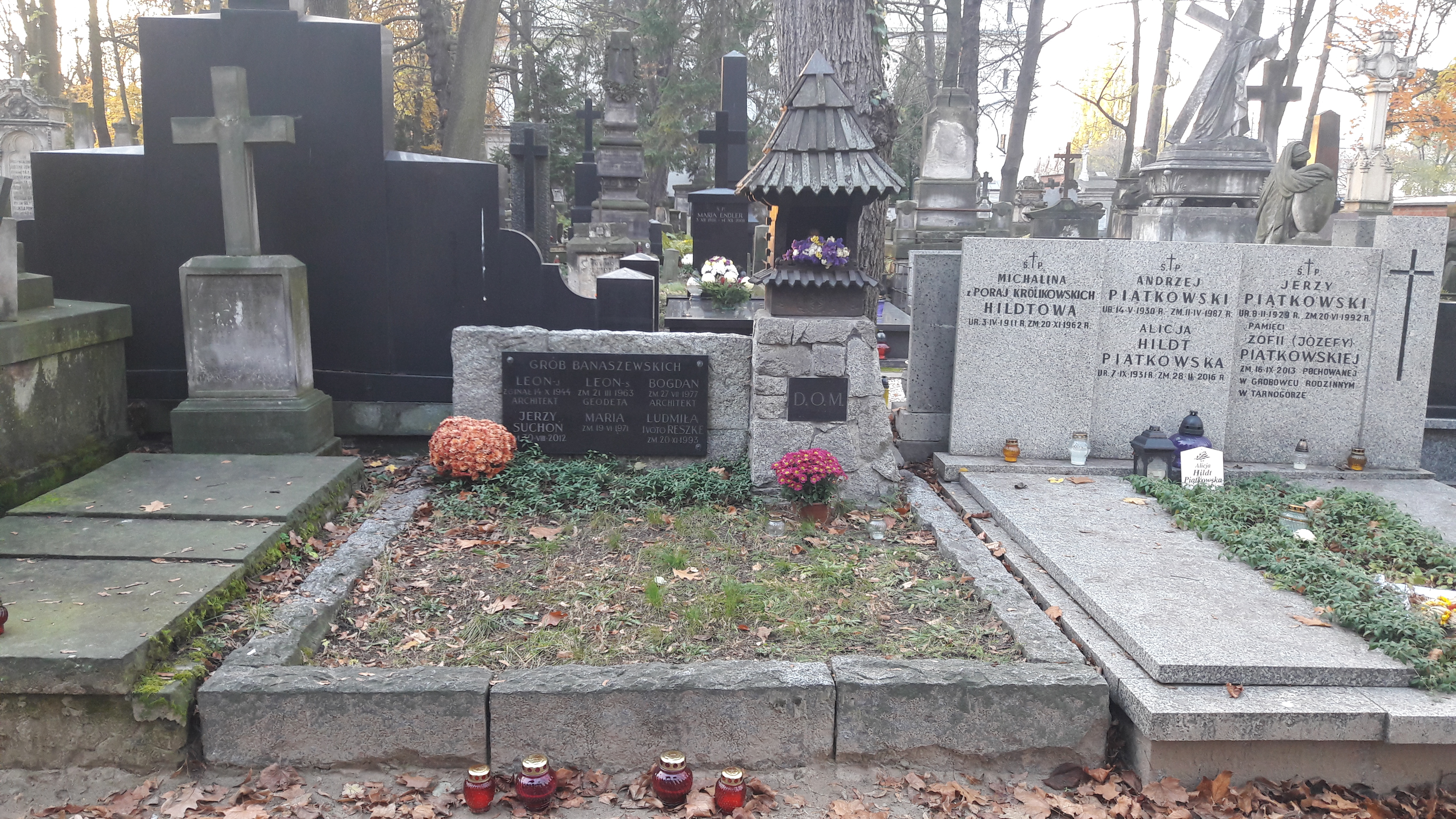 The grave of Bogdan Banaszewski at the Powązki Cemetery, section 3, row 1, grave 11 and 12